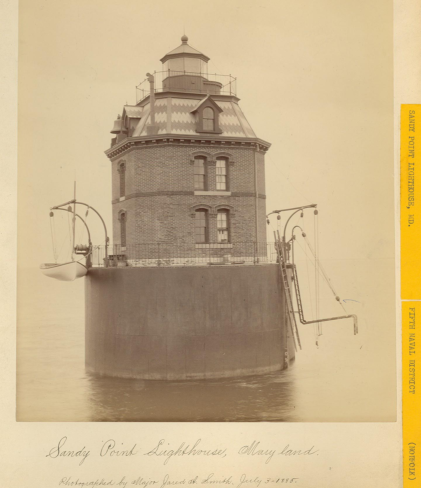 Sandy Point Shoal Light, off the Magothy River, Chesapeake Bay, Maryland, USA